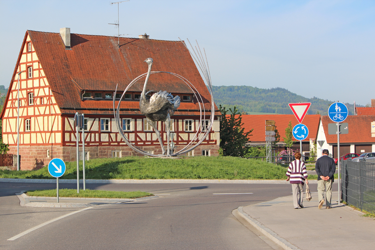 A ostrich, made of stainless steel, in a traffic circle. Based on the crest on a helmet of the "Herren von Heideck".